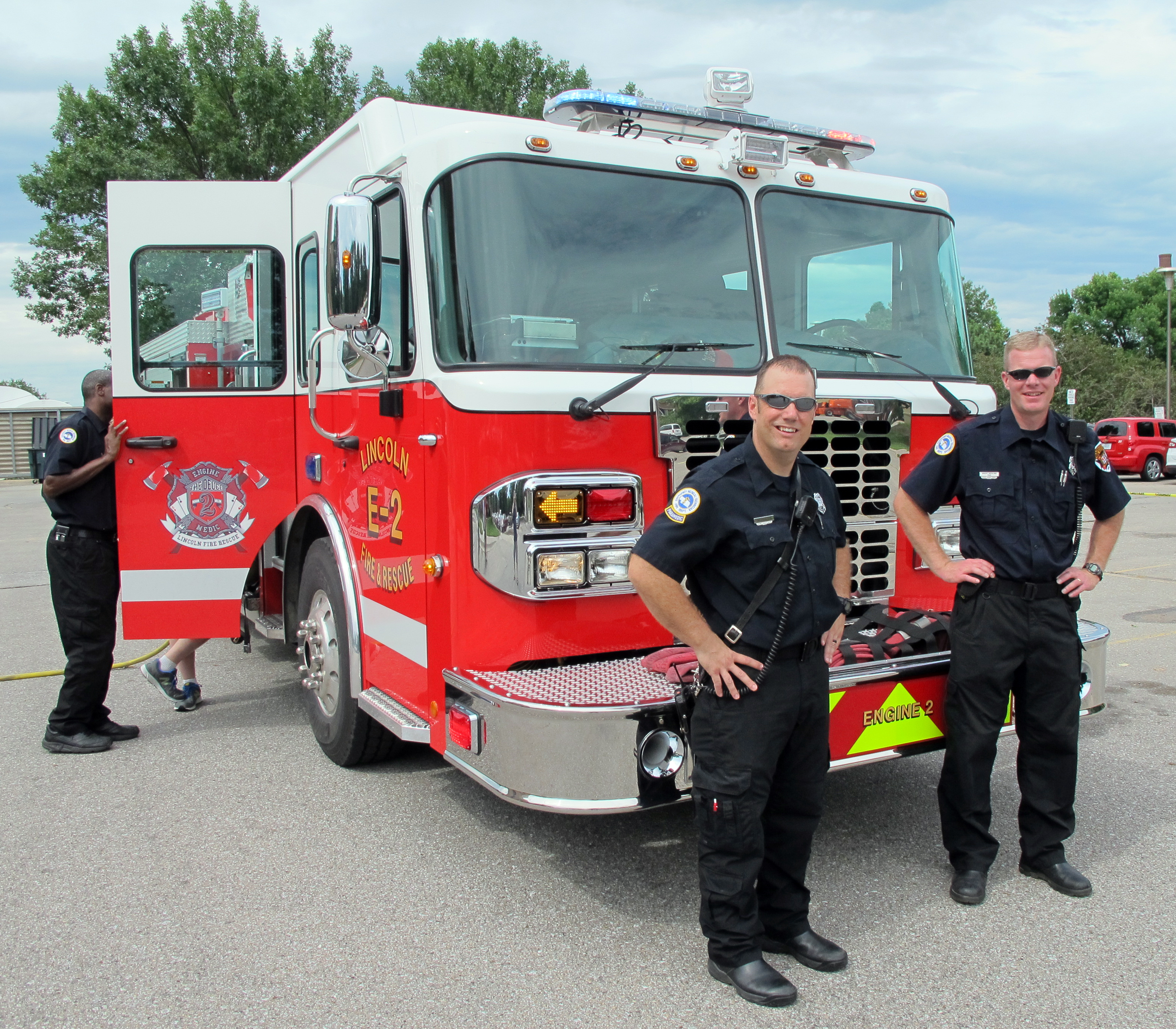 Photo of Lincoln Fire & Rescue Department Engine #2, as seen in the Nebraska Educational Telecommunications parking lot in Lincoln, Nebraska. Photo shows Station #2 firefighters standing in front of their new, 2014 Smeal Volunteer Series Pumper.